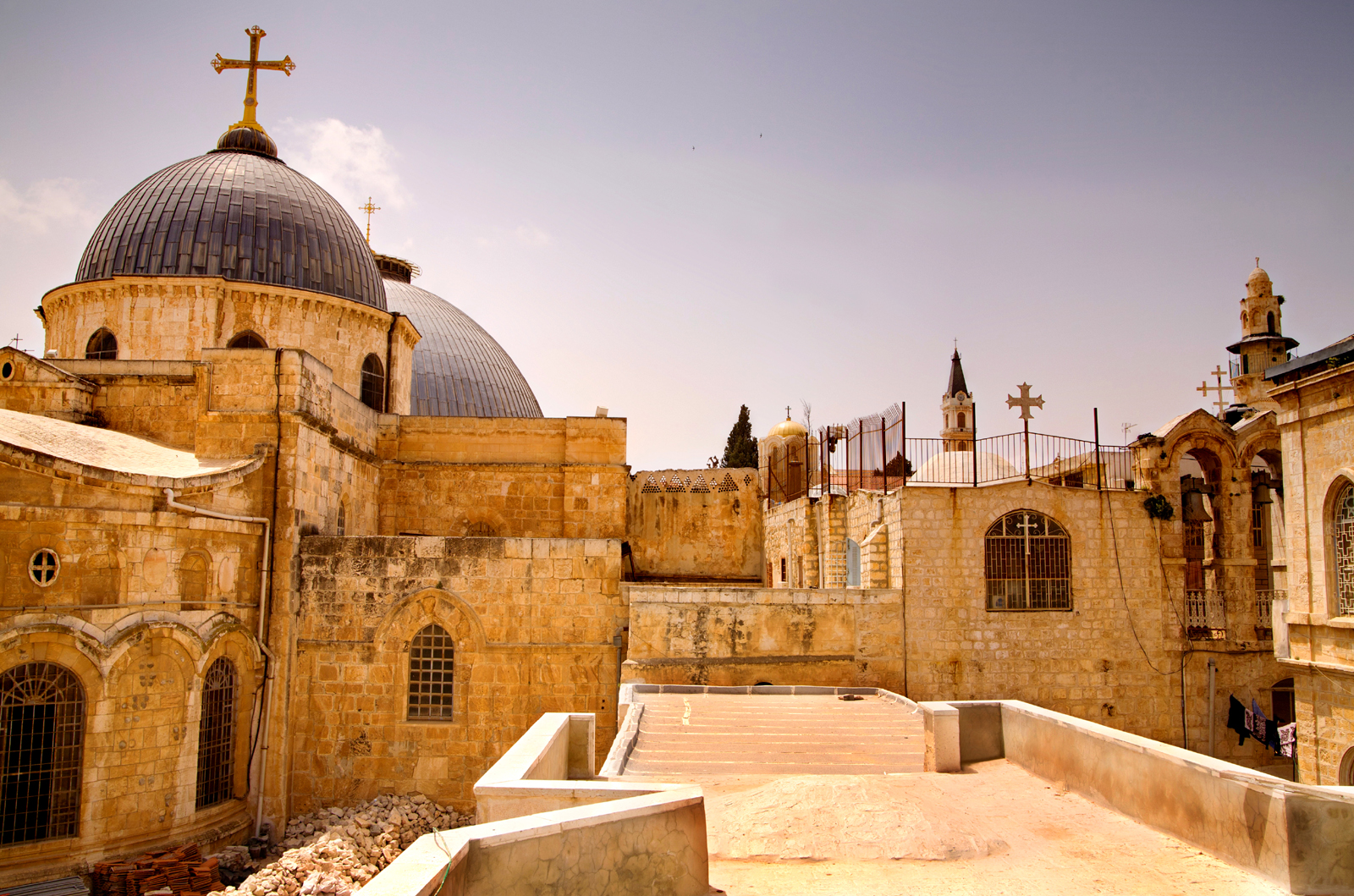 Church of the Holy Sepulchre